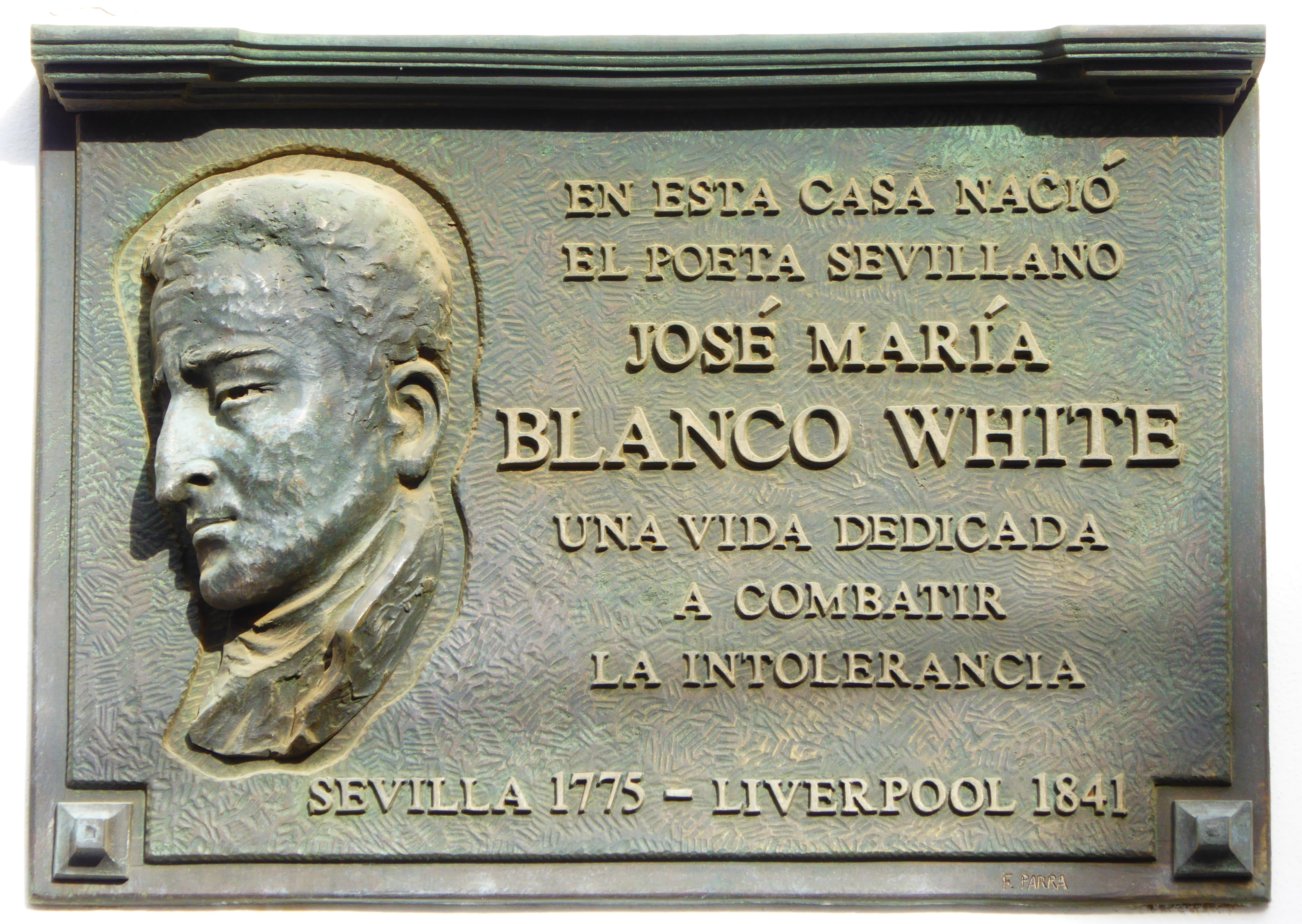 Plaque to the Hispano-Irish Liverpudlian Blanco White in Sevilla, Spain.